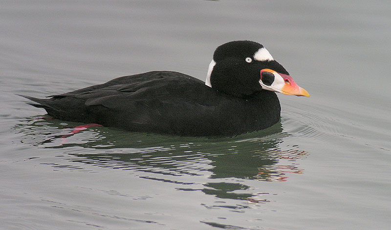 A bit of overcast compresses the dynamic range, allowing more detail than usual. ASrrowhead Marsh, Oakland, California